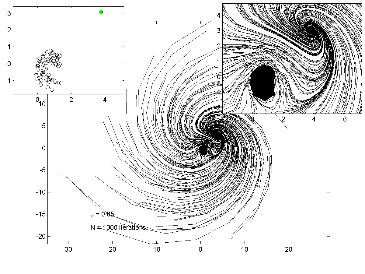 Ikeda trajectory plot made using MATLAB